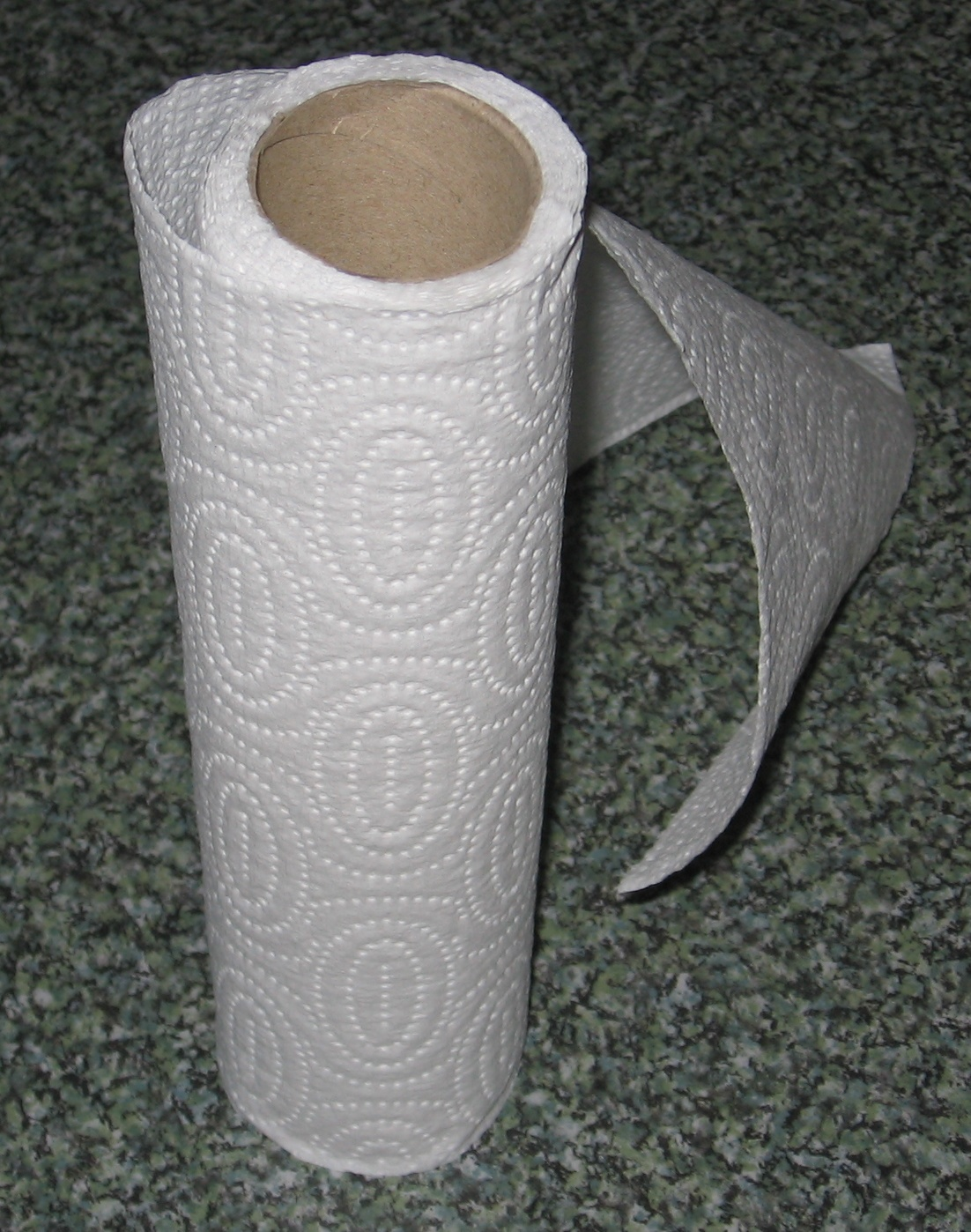 Paper towel on reel